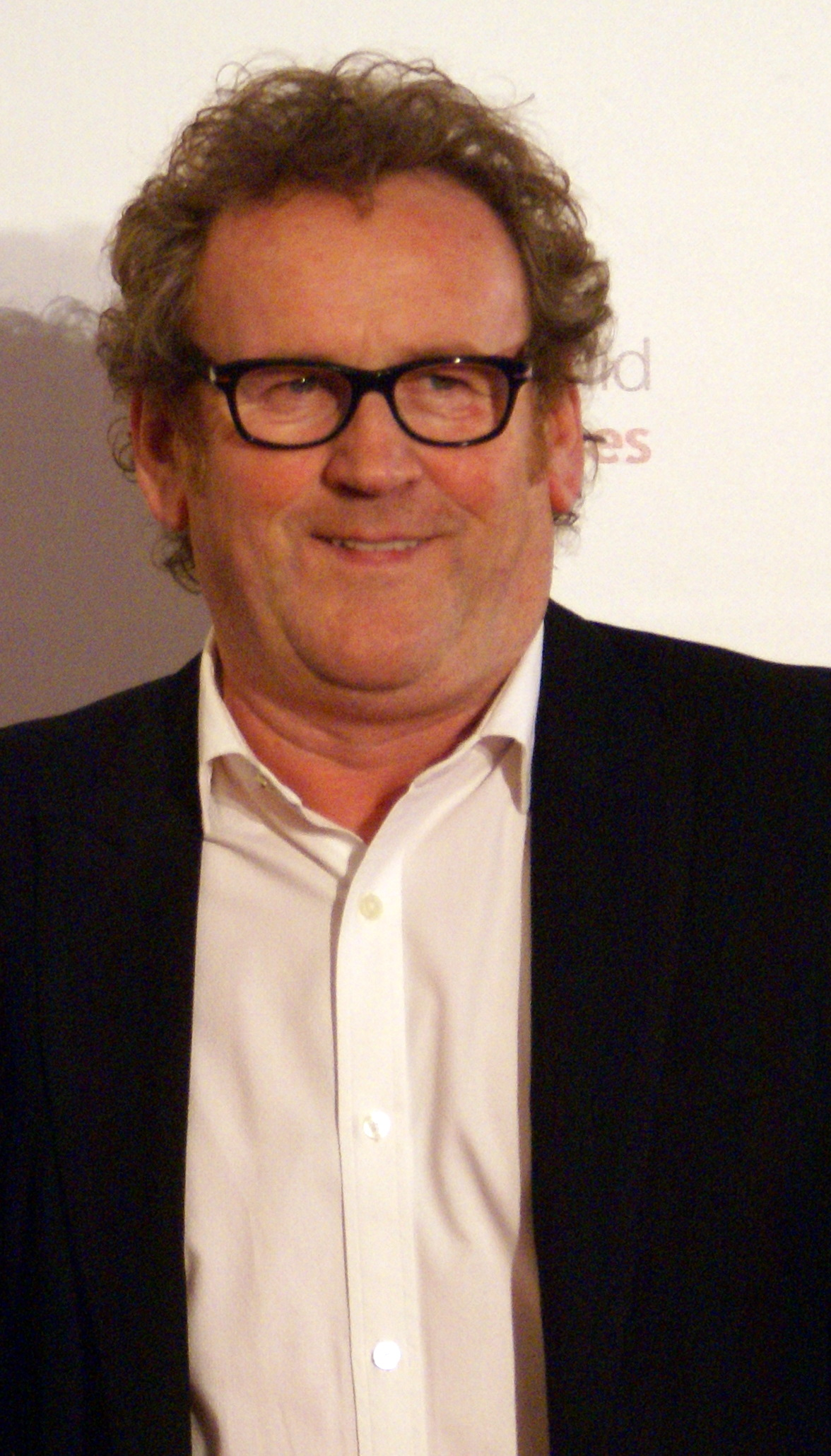 Colm Meaney, Irish actor, at the Seminci 2011.